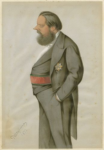 Caricature of HH Prince Edward of Saxe-Weimar, Commander-in-Chief of Ireland.